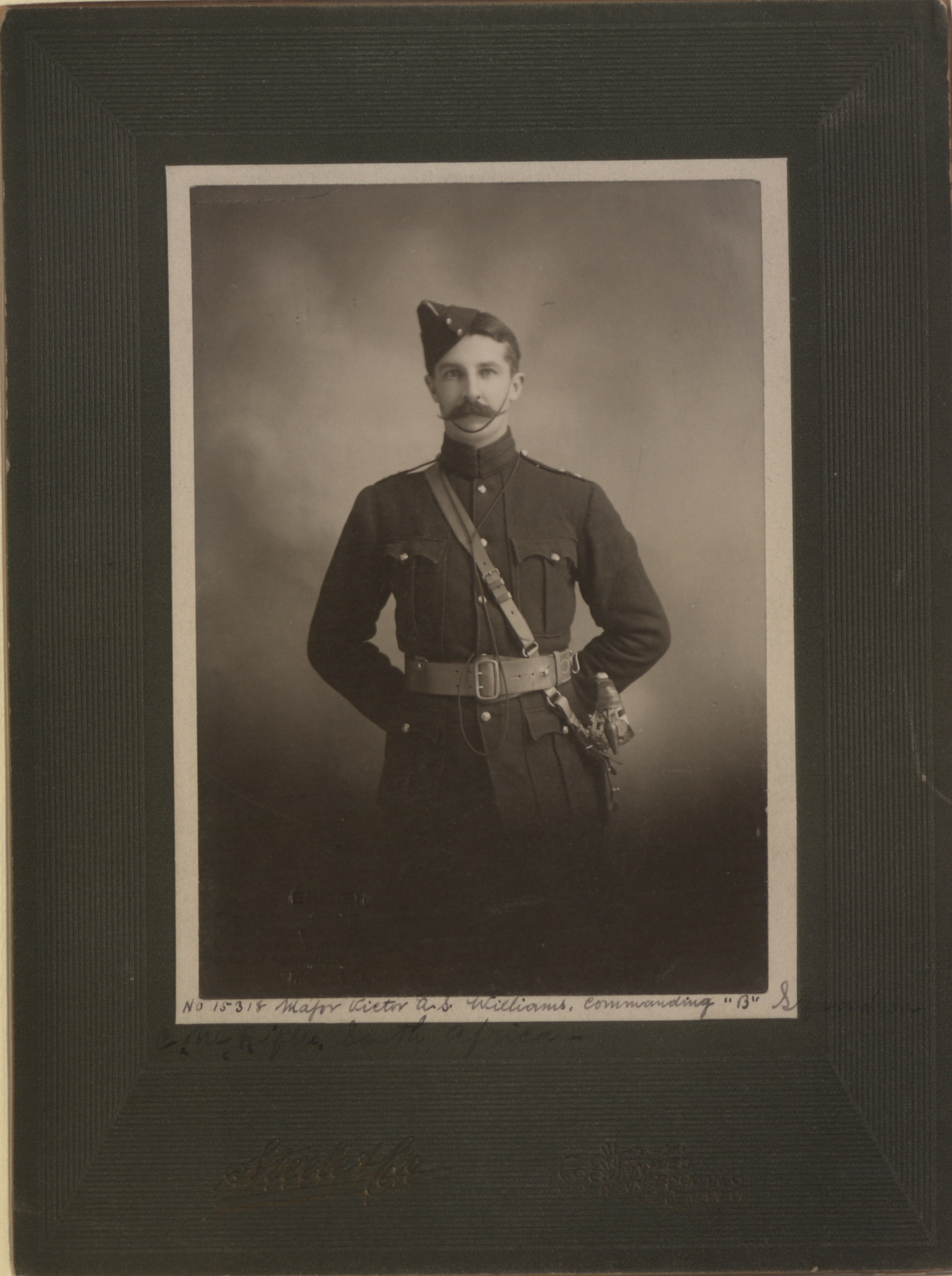 Major Victor A.S. Williams. No. 15318.